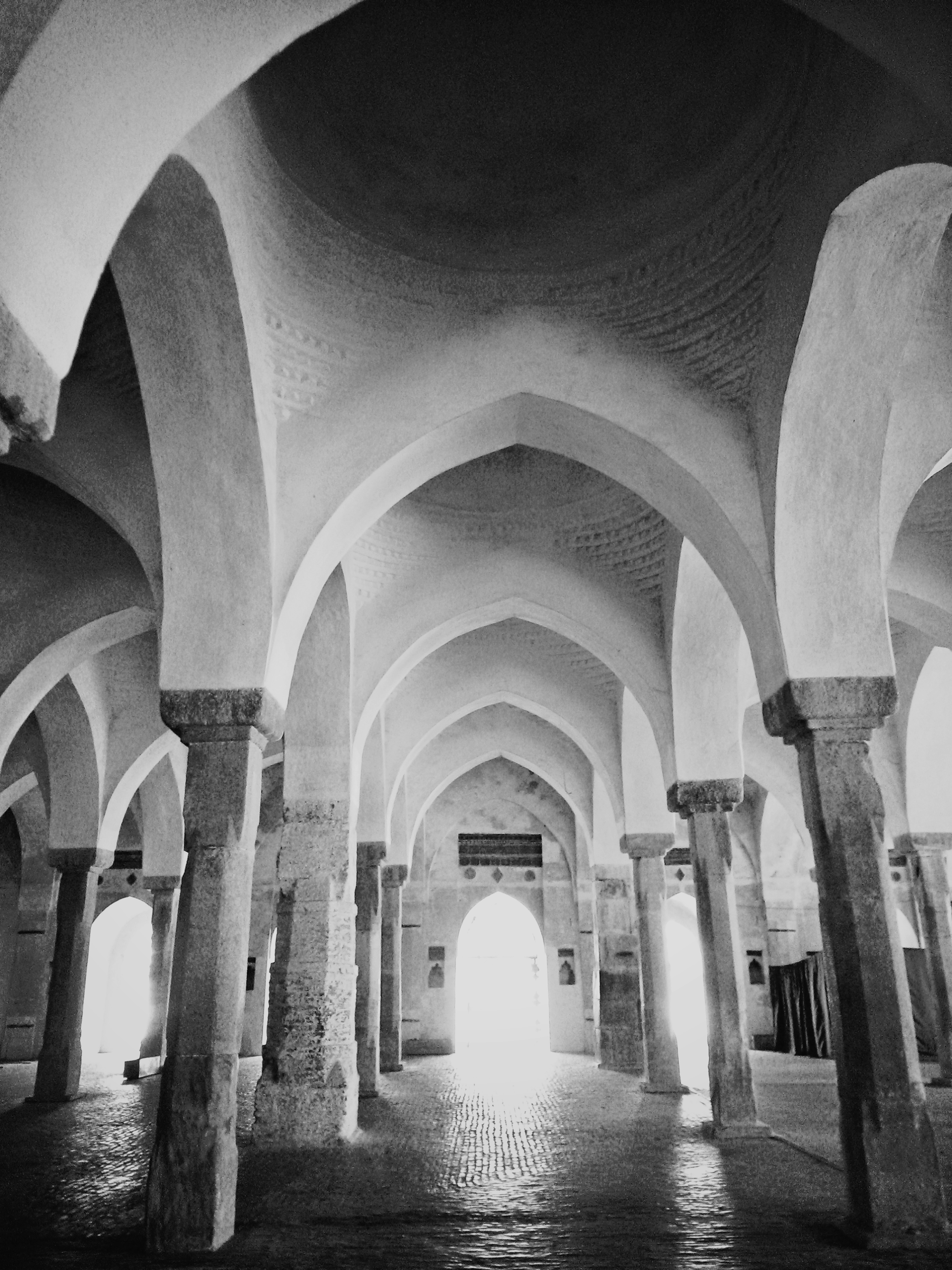 Inside View Of Sixty Dome Mosque